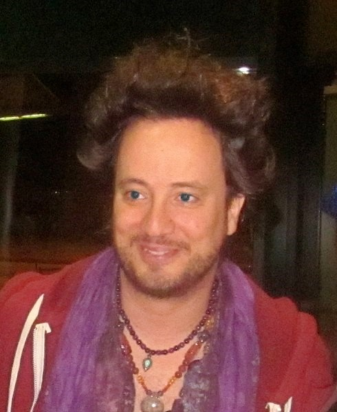 Giorgio A. Tsoukalos at New Orleans Comic Con 2012 Wizard World, Morial Convention Center.